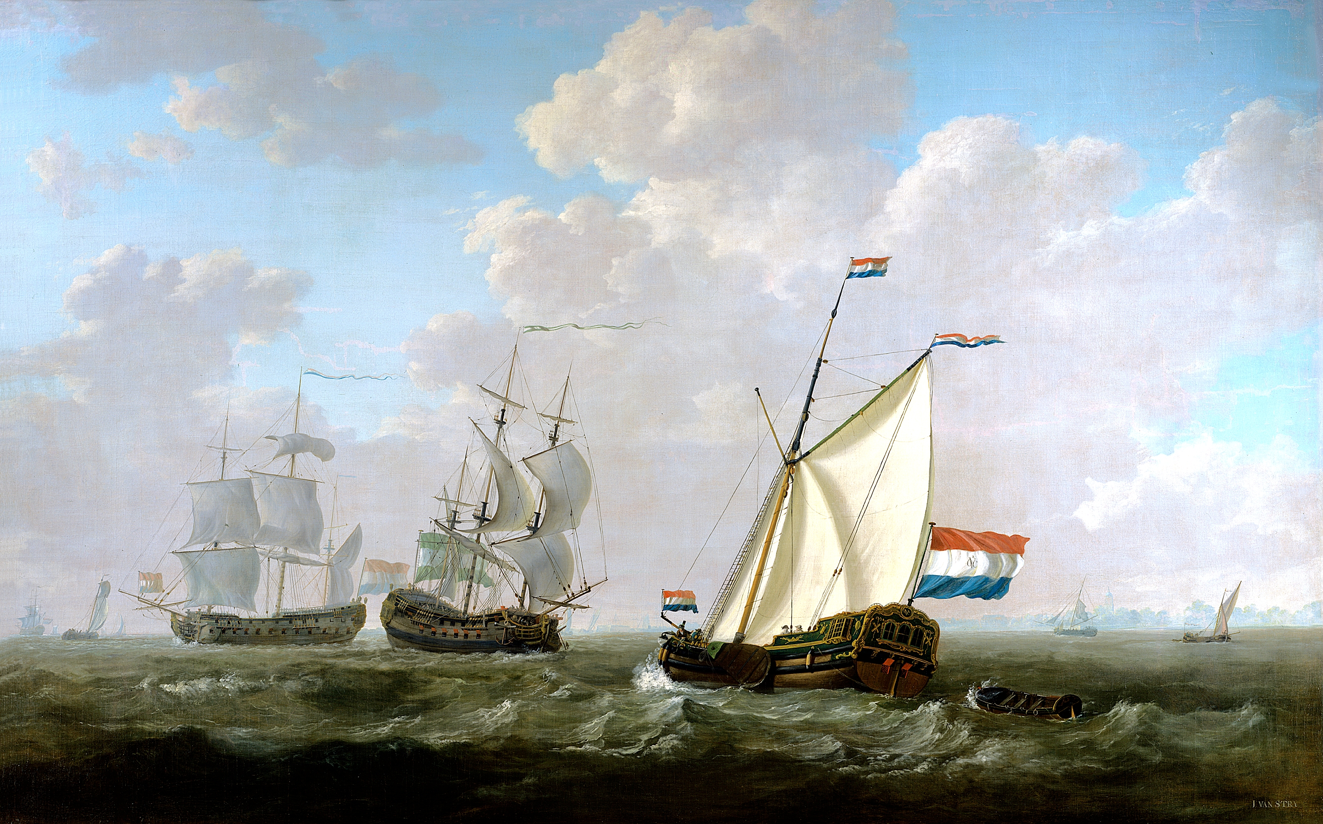 The yacht of the Chamber of Rotterdam for the Dutch East India Company salutes an East-Indiaman and a Dutch man-of-war on the roadstead of Hellevoetsluis.